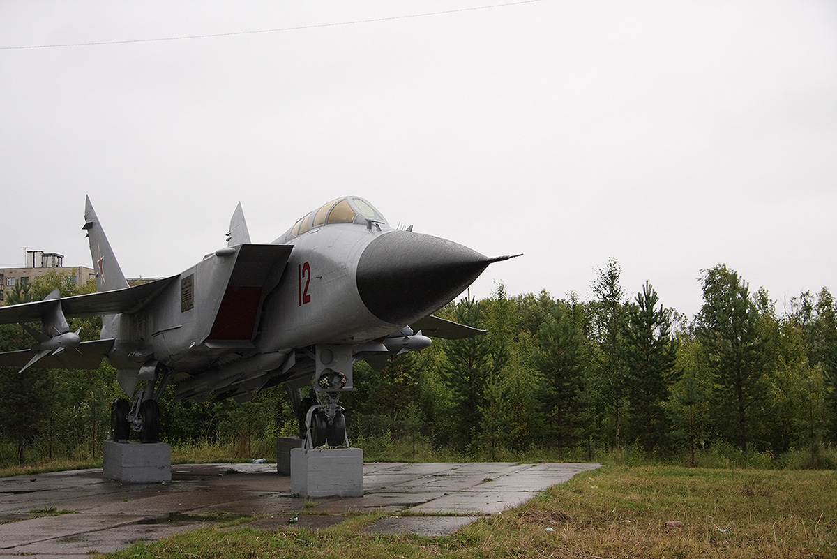 interceptor MiG-31 at Talagy airport